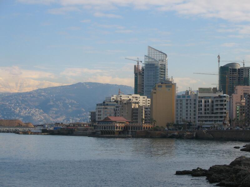 View of the western part of the bay of Saint George in Beirut with snow-capped Mount Sannine in the background.